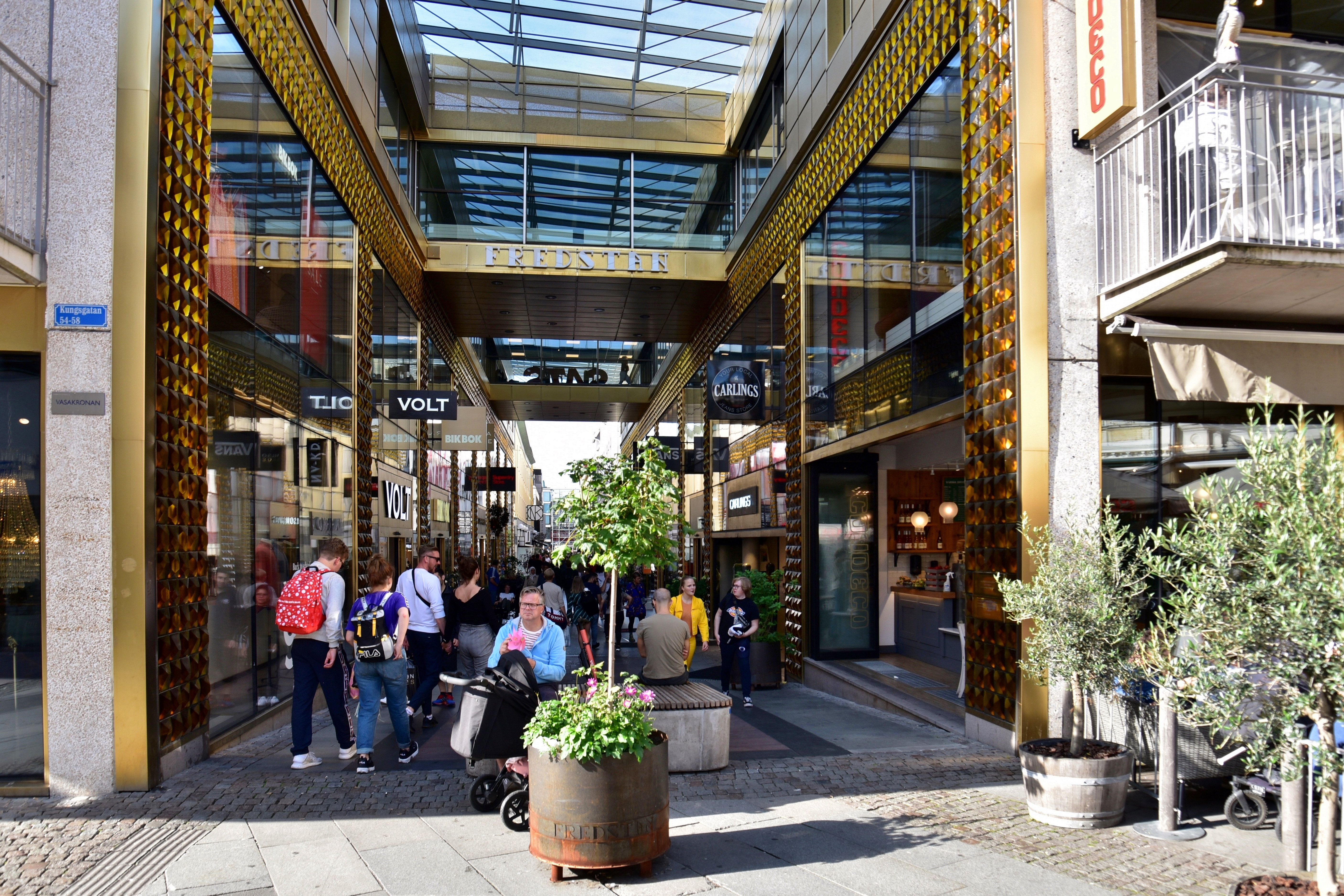 View of Fredsgatan, Göteborg